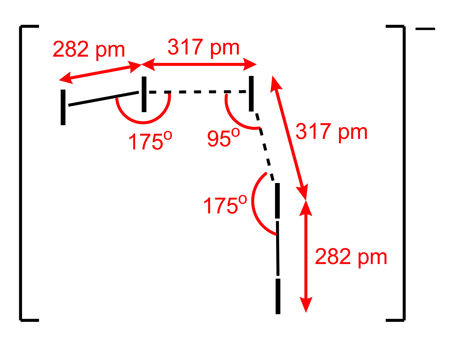 I5- anion